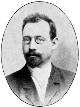 Image scanned from the book "Svenskt Porträttgalleri XX - Arkitekter, Bildhuggare, Målare m.fl. " ("Swedish Portrait Gallery XX - Architects, Sculptors, Painters, ") published 1901